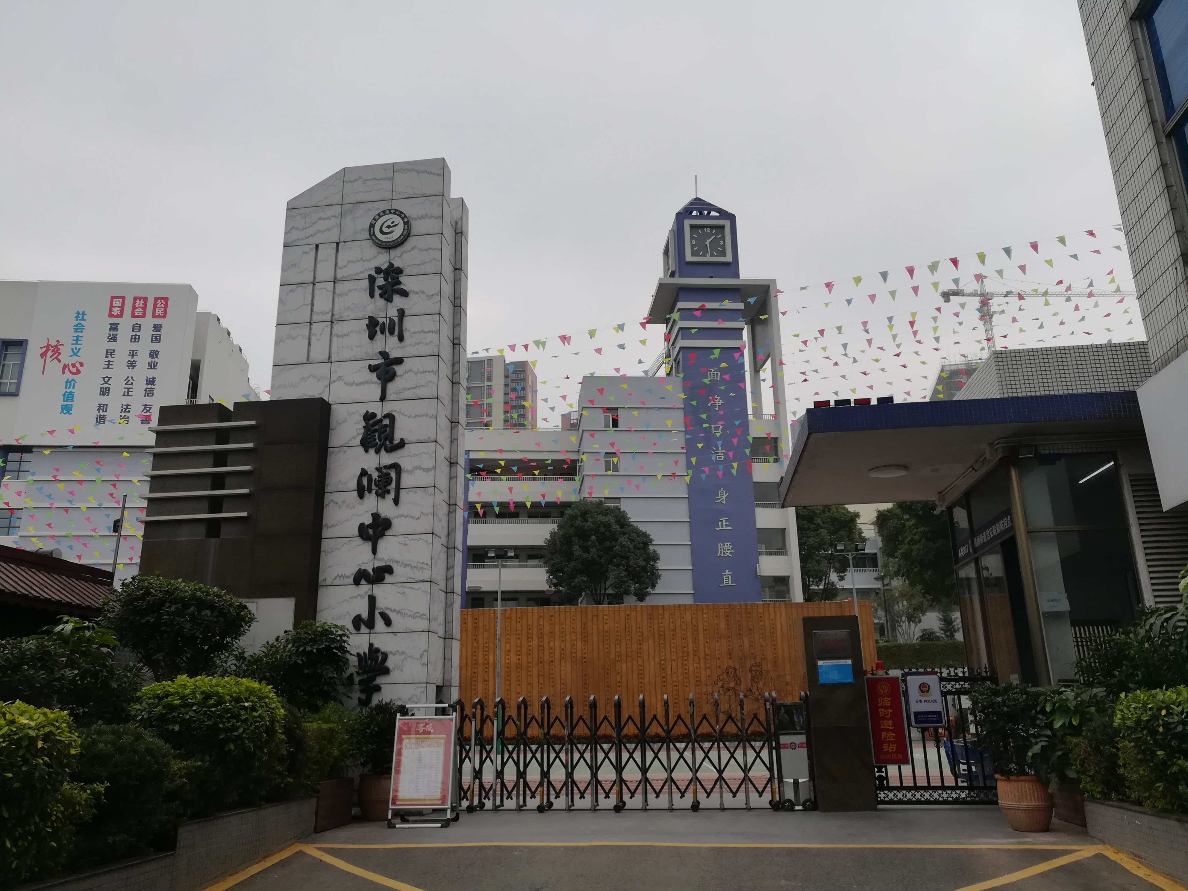 The Guanlan Primary School in Longhua District of Shenzhen, Guangdong, China.